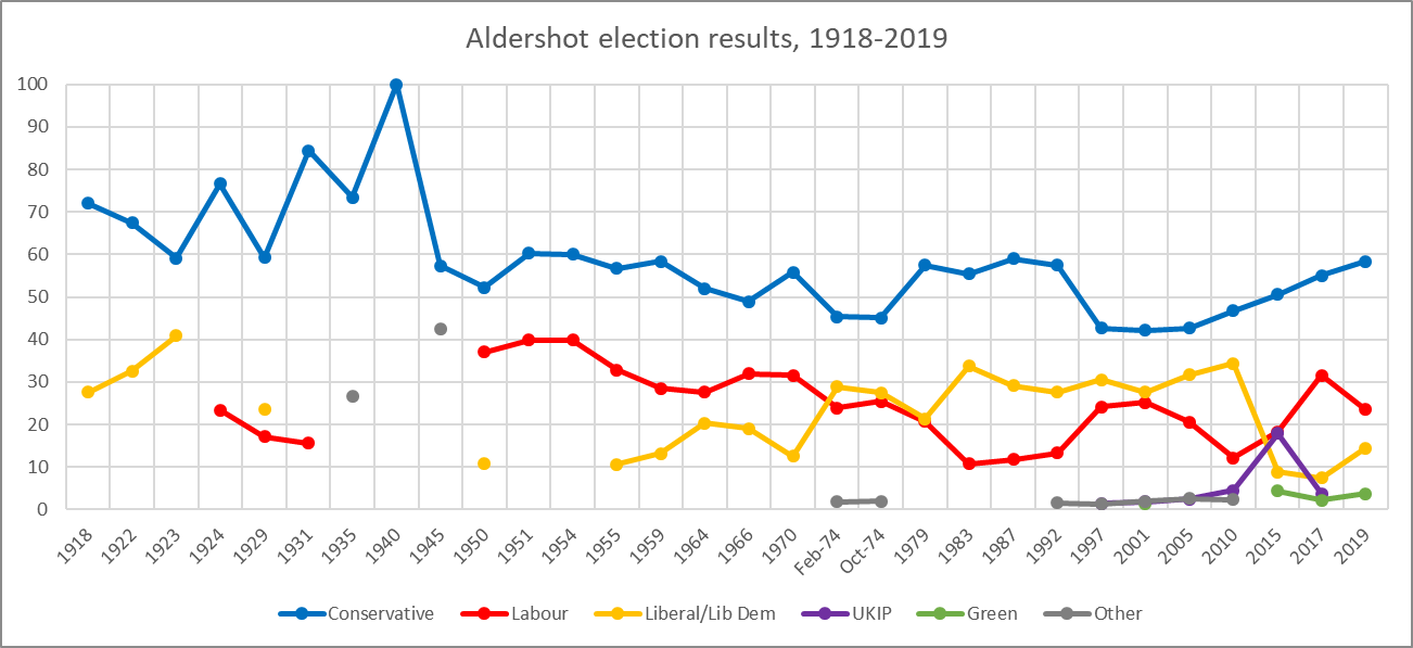 Graph showing election results for the Aldershot constituency.